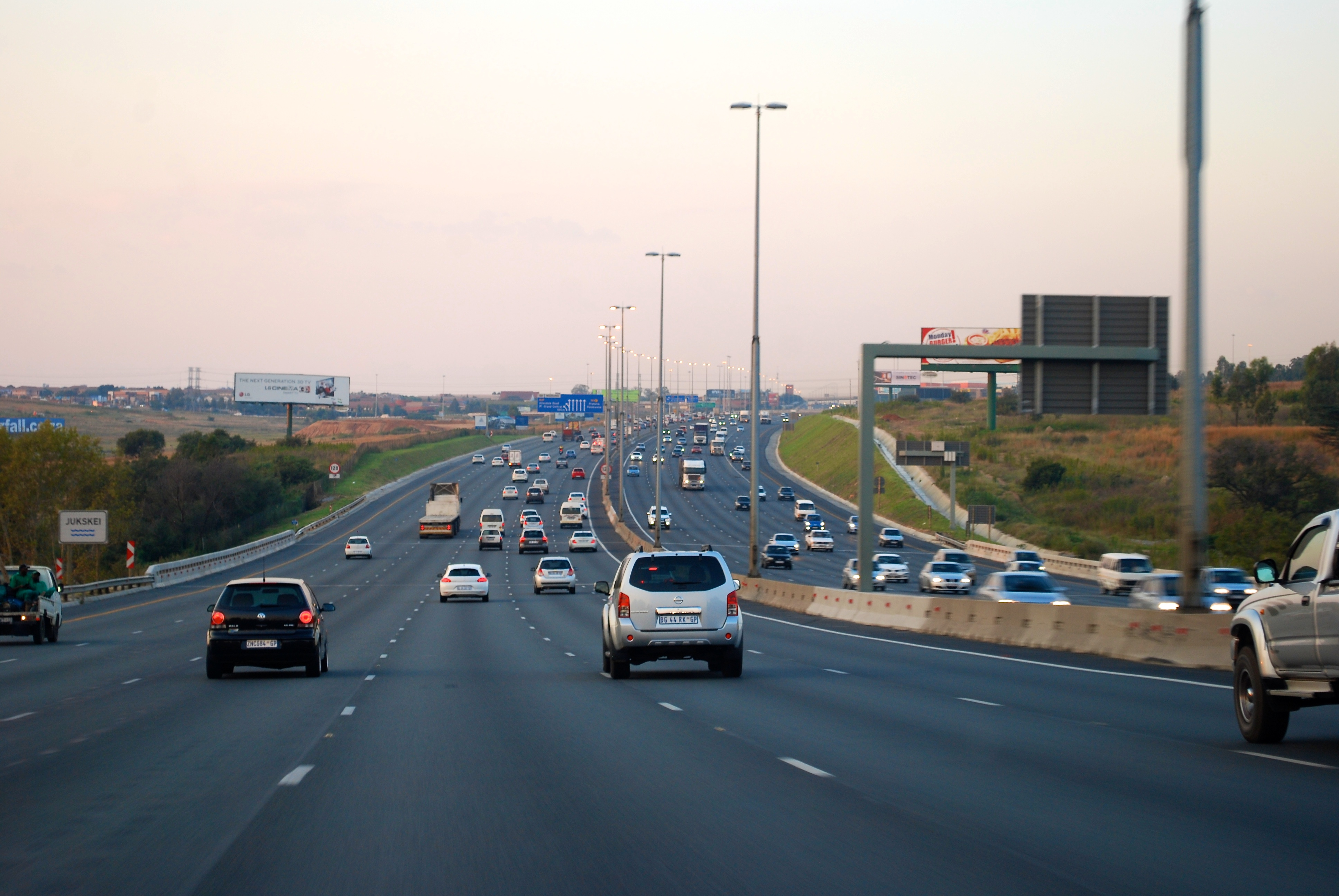 N1 - The massive freeway connecting Johannesburg and Pretoria